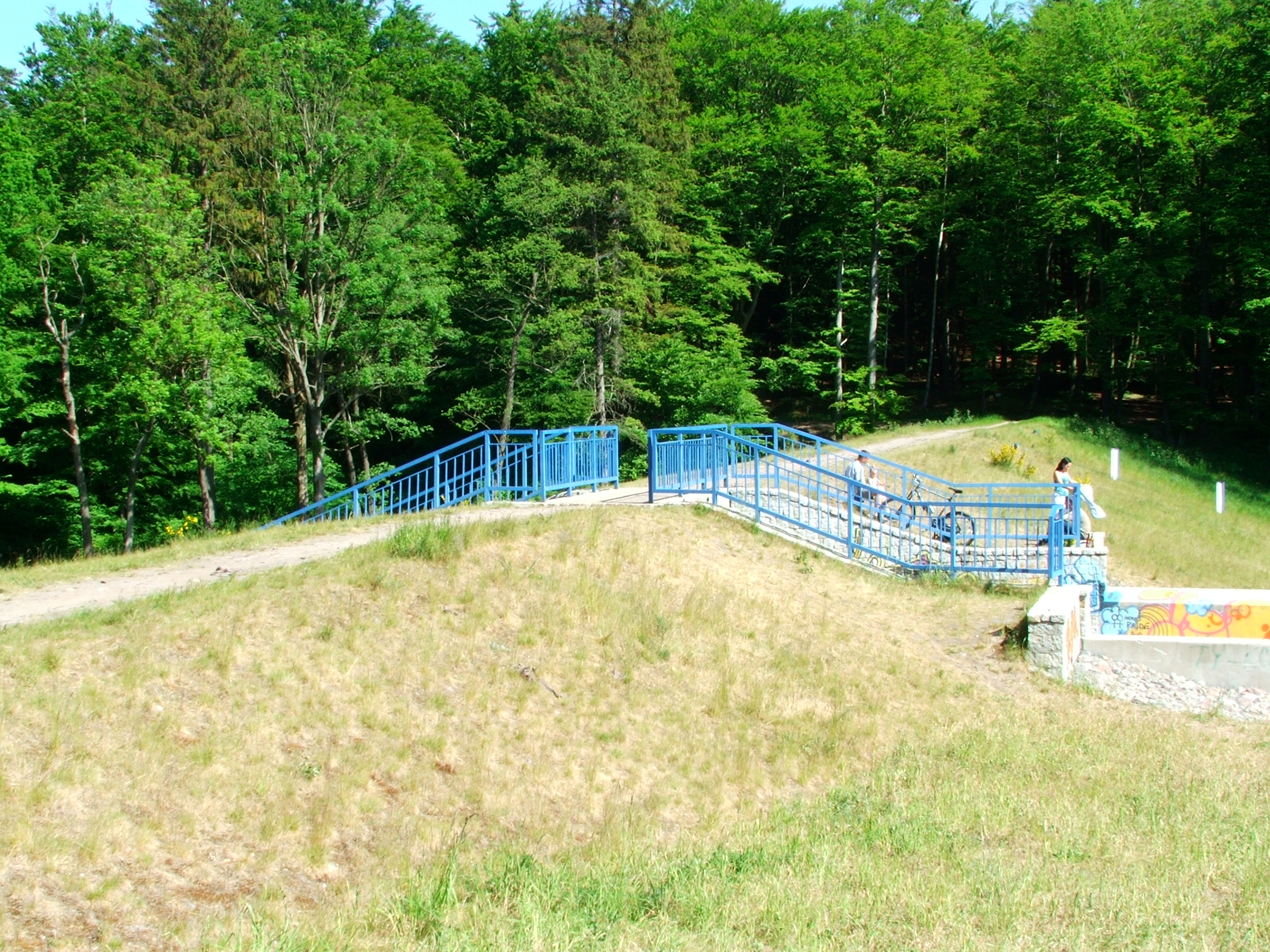 Krykulec clearing